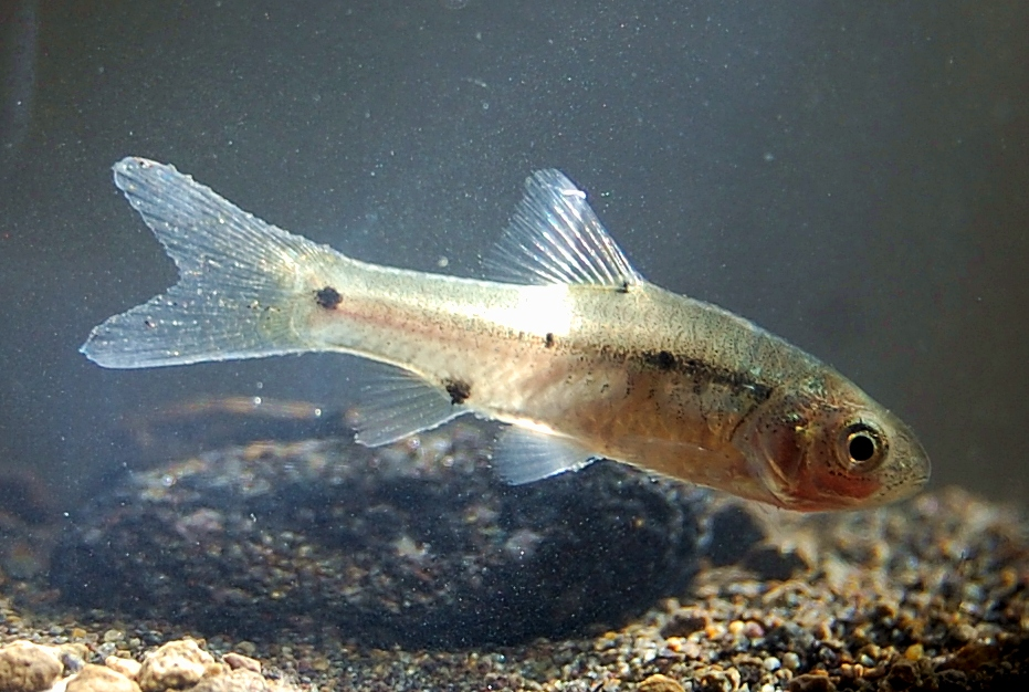 Puntius binotatus juvenile, 22 mm SL, from Ciliwung River, Bogor, West Java, Indonesia